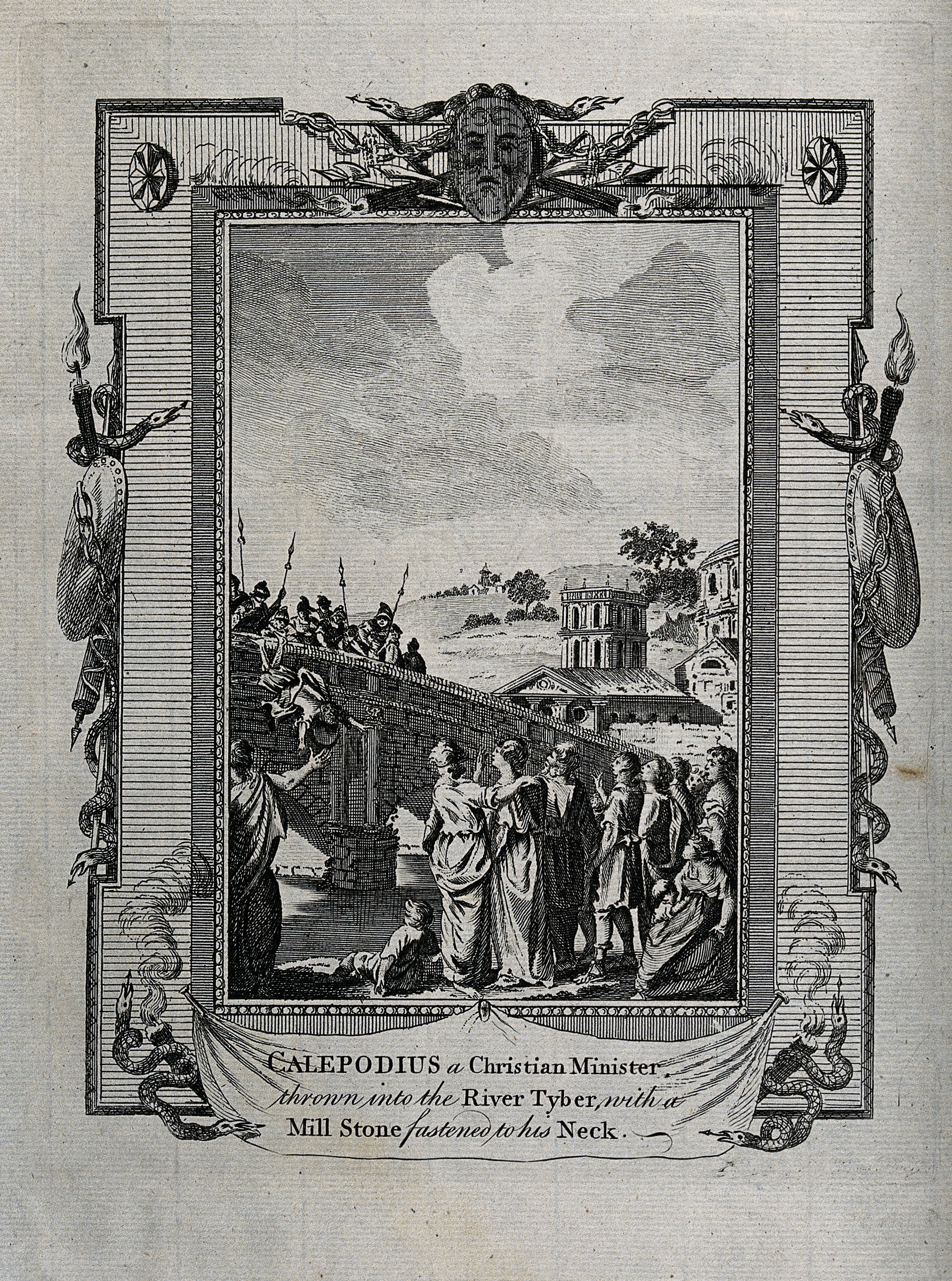 Martyrdom of Calepodius, a Christian minister. Engraving. Iconographic Collections